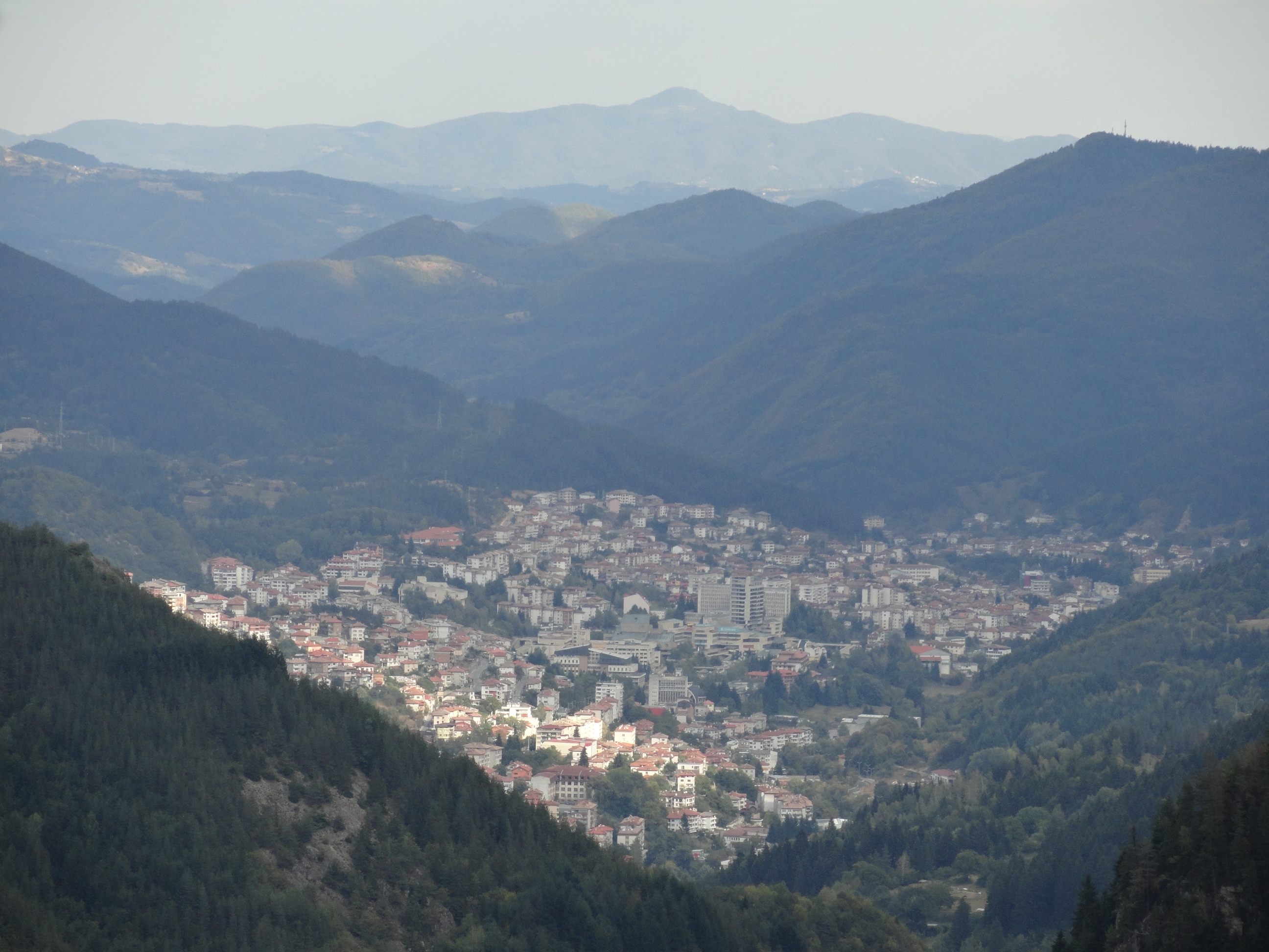 Visit my blog at The Trip Blogger for more amazing photos and travel posts. This is The Eco-trail (Ecopath) ``Waterfalls canyon`` in Rhodopa Mountain Smolyan Bulgaria